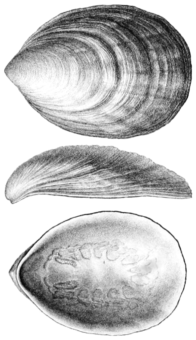 Drawing of Pilina unguis, synonym Tryblidium unguis. Head region is on the left.